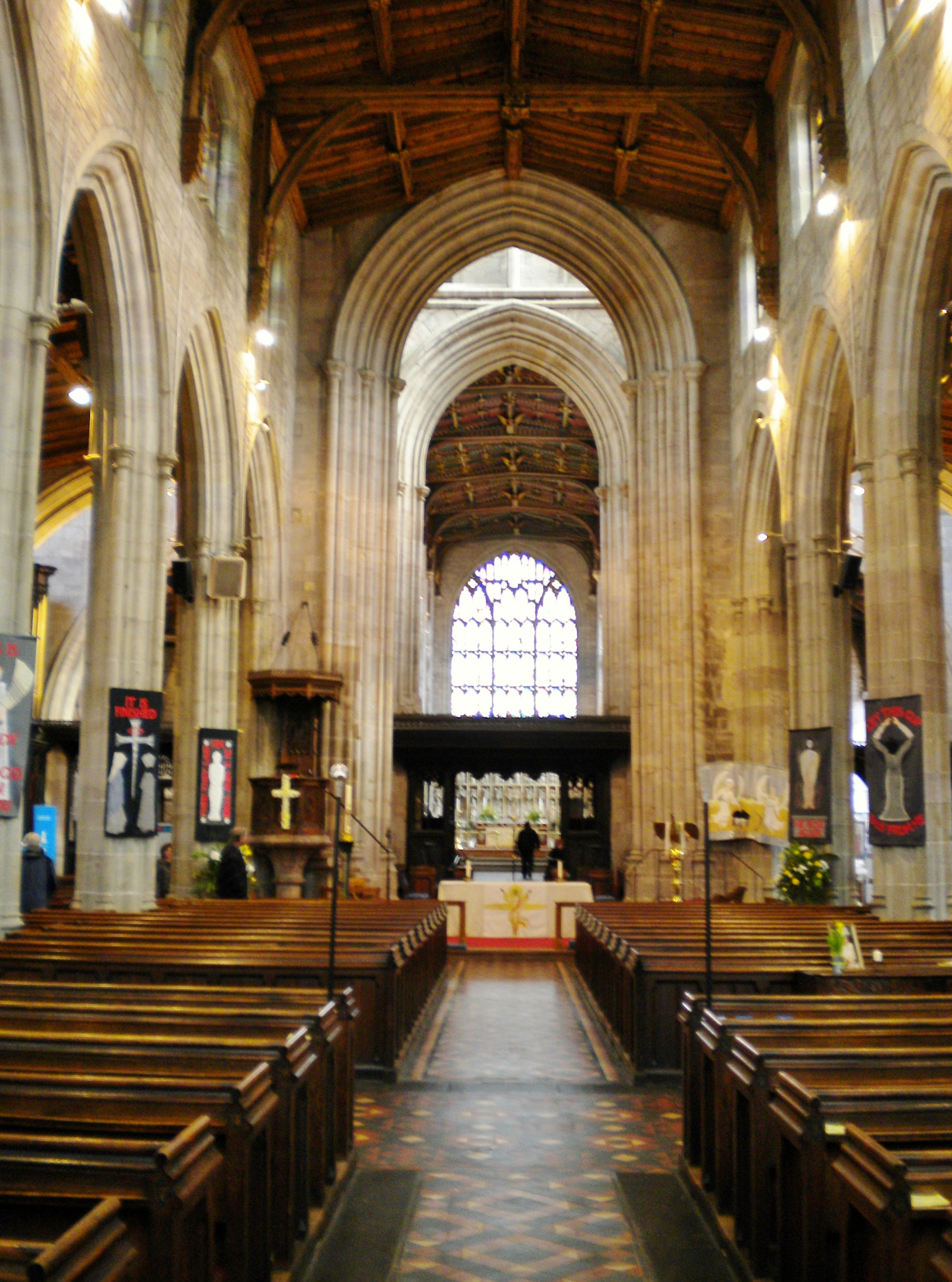 The interior looking east of St Laurence, Ludlow, Shropshire, England.